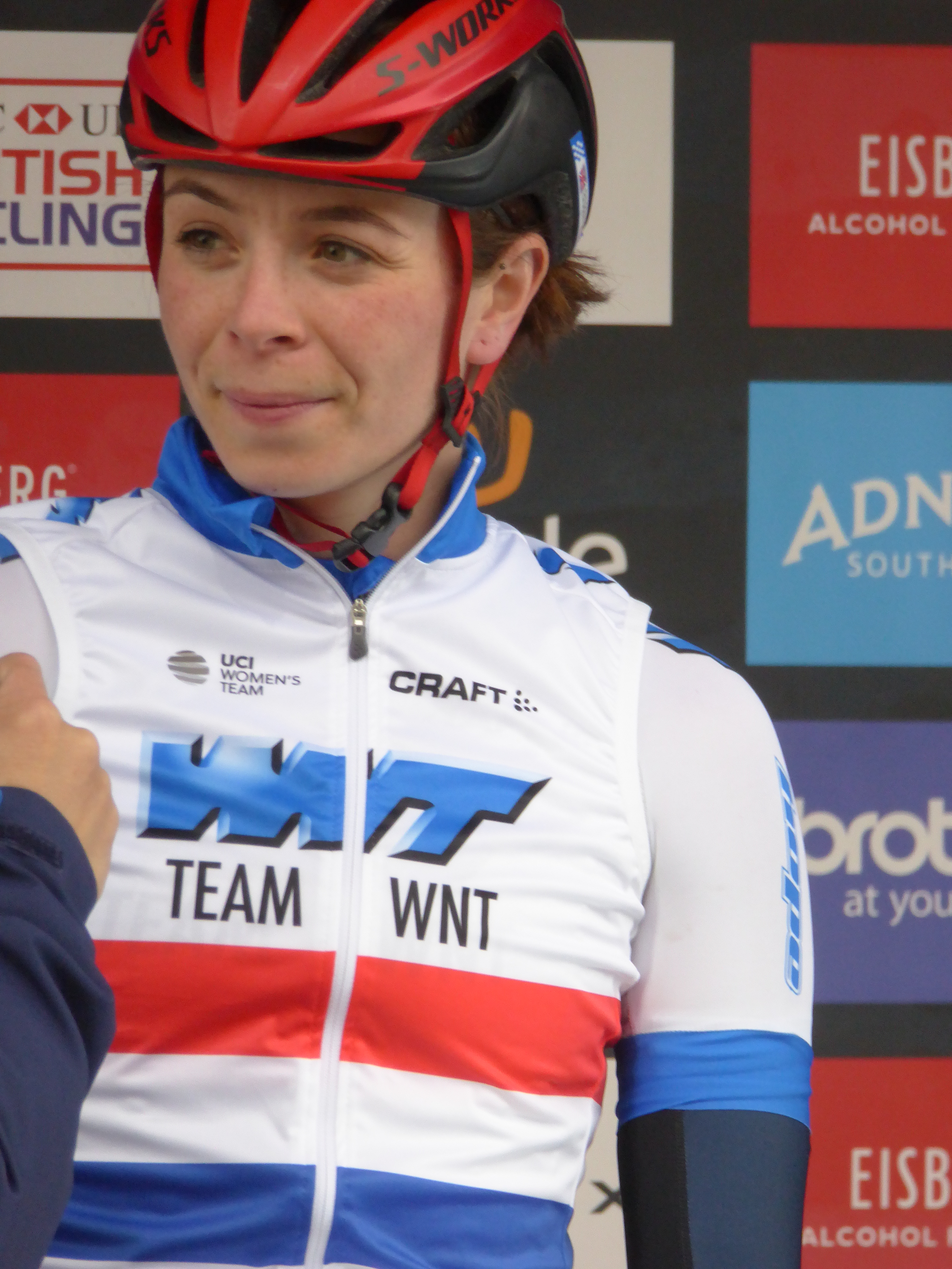 Eileen Roe (Team WNT), prior to Round 7 of the Matrix Fitness GP Series in Motherwell, on 23 May 2017. Roe is wearing the British national criterium champion's jersey.